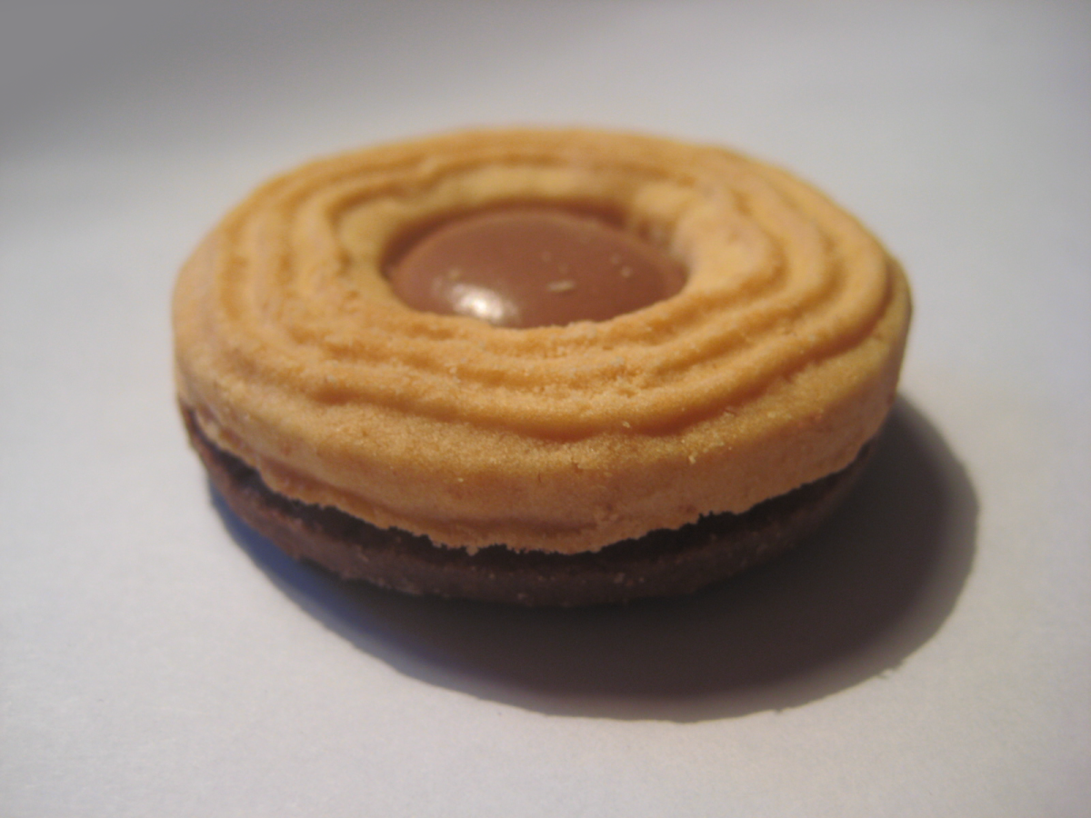 This is one of the most popular cookie in Sweden. It's called "Ballerina" and and can be found in many varieties. They're all delicious.